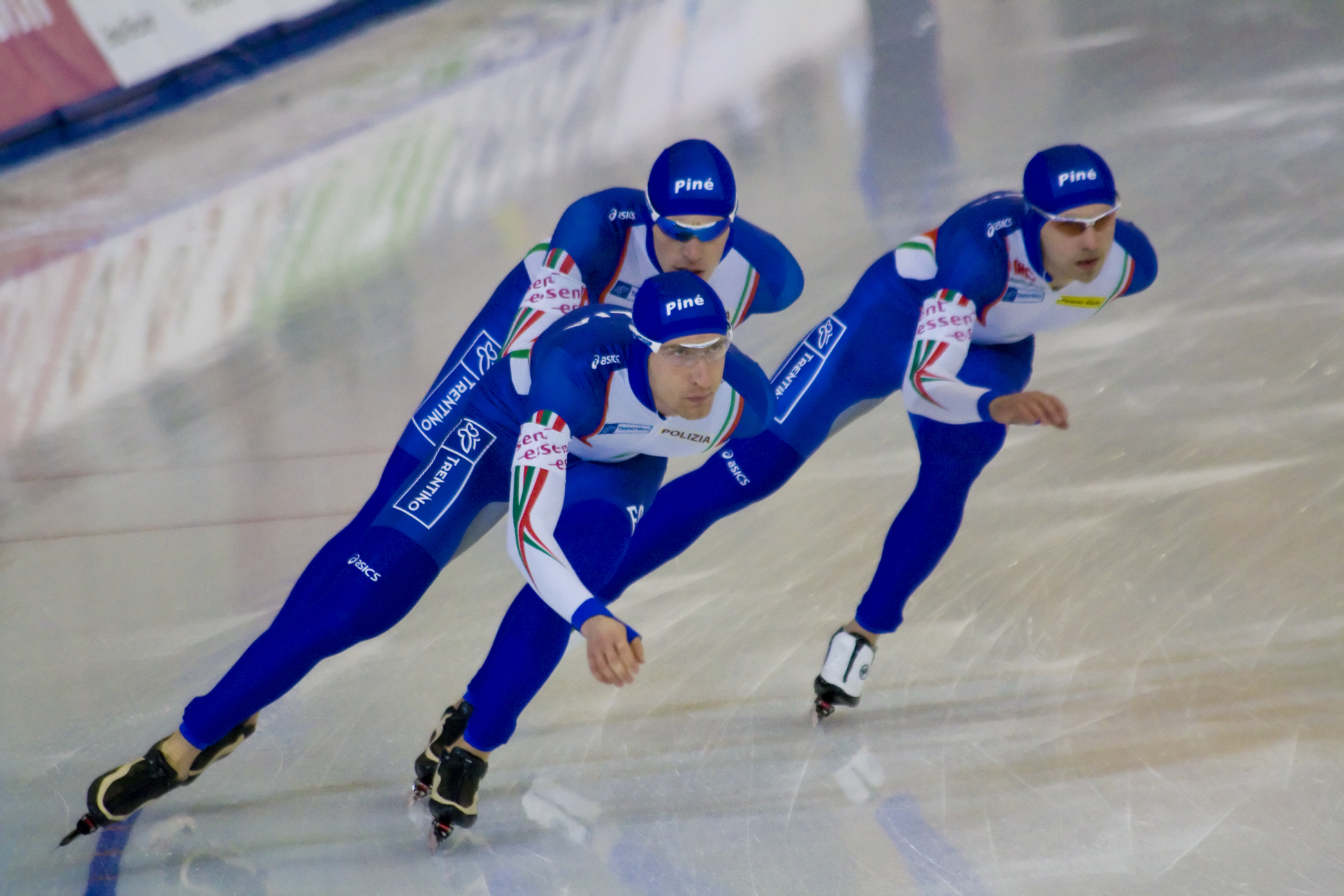 Team Italy Team Pursuit. Enrico Fabris (down), Matteo Anesi (right), Luca Stefani